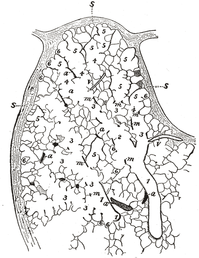 Part of a secondary lobule from the depth of a human lung, showing parts of several primary lobules. 1, bronchiole; 2, respiratory bronchiole; 3, alveolar duct; 4, atria; 5, alveolar sac; 6, alveolus or air cell: m, smooth muscle; a, branch pulmonary artery; v, branch pulmonary vein; s, septum between secondary lobules. Camera drawing of one 50 μ section. X 20 diameters. (Miller.)